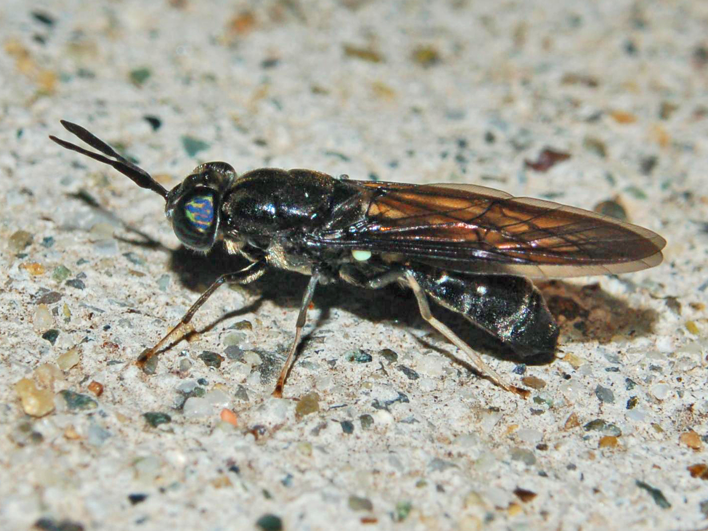 Hermetia illucens - San Bernardo, Genova, Italy